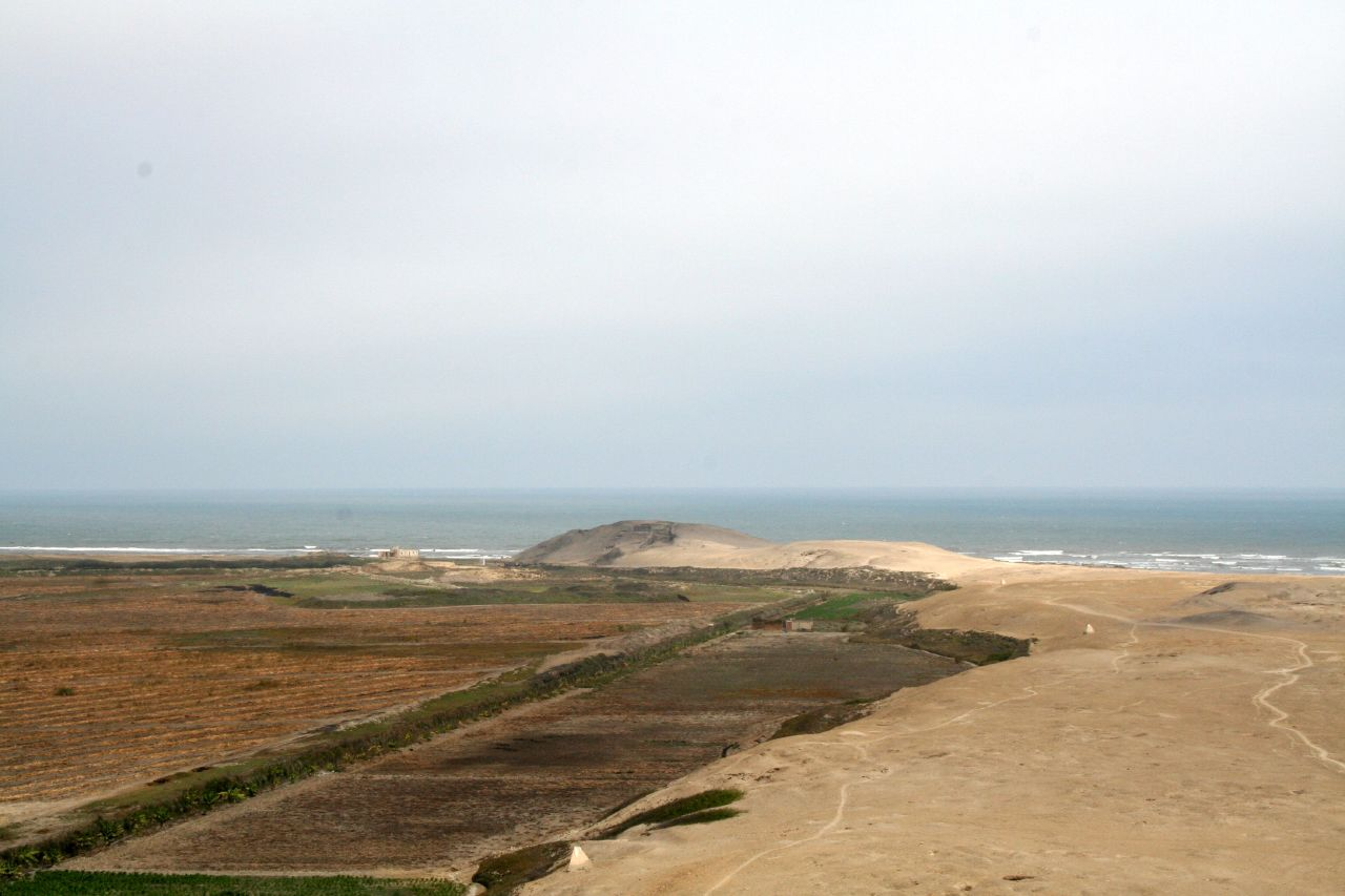 View from the top of Huaca Cao Viejo, at El Brujo Archaeological complex, an important Moche site. On the seaside, Huaca Prieta, a pre-ceramic structure (2500 BCE).